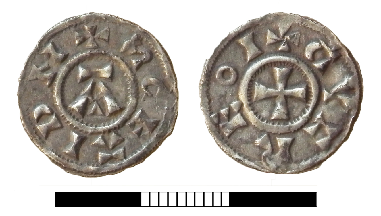 An early-medieval silver East Anglian Viking penny of St Edmund Memorial type (North 483), c.905-15. Ref: North 1991: 108-9; Blackburn and Pagan 2002. The obverse inscription SCE AIDM places the coin within the phase of the coinage post-dating the Cuerdale hoard of c.905 from which many St Edmumd Memorial pennies are known.